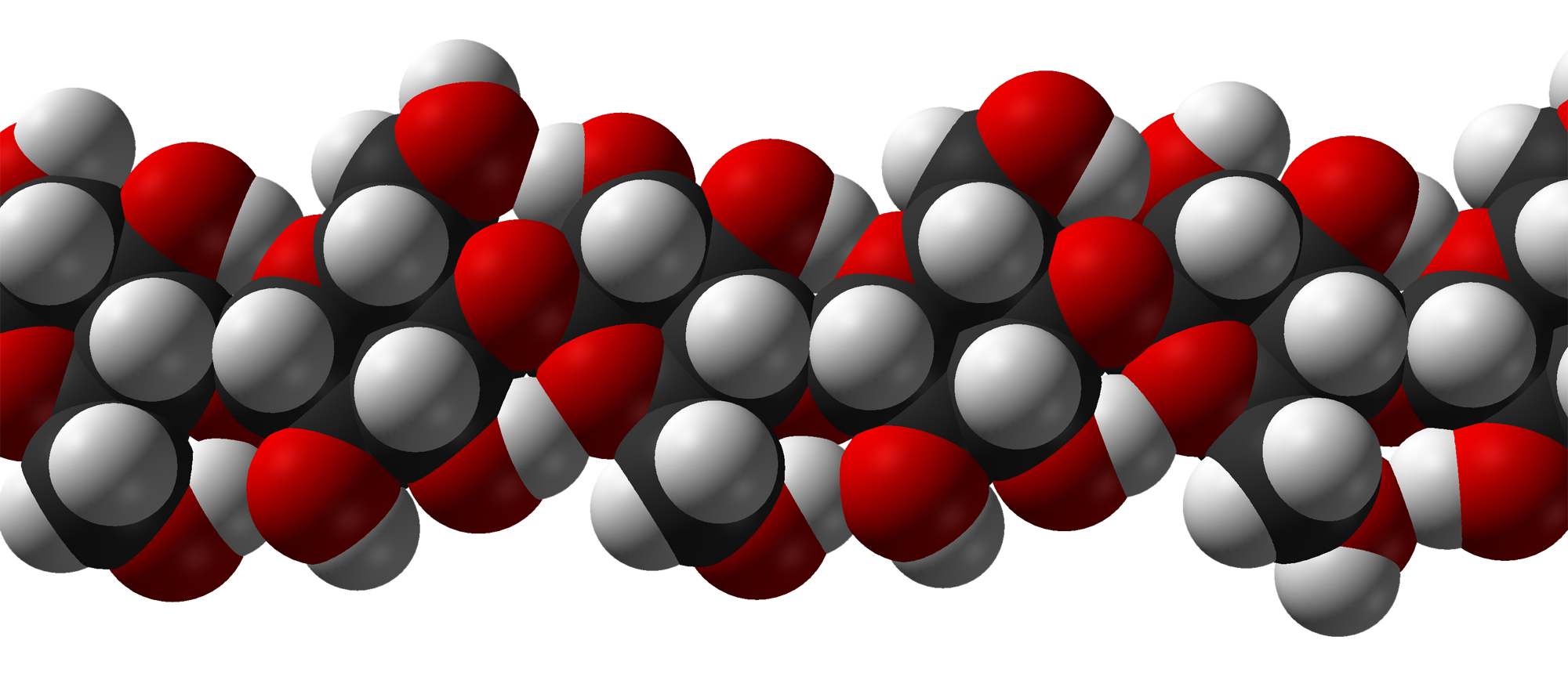 Space-filling model of part of the crystal structure of cellulose Iβ. X-ray crystallographic data from J. Am. Chem. Soc. (2002) 124, 9074–9082. Model constructed in CrystalMaker 8.1. Image generated in Accelrys DS Visualizer.